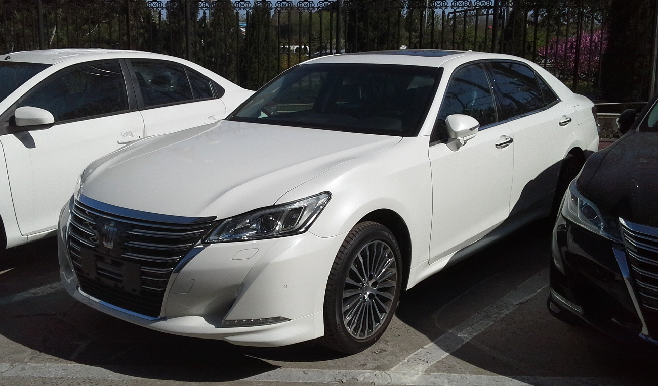 Toyota Crown S210 photographed in Beijing, China.